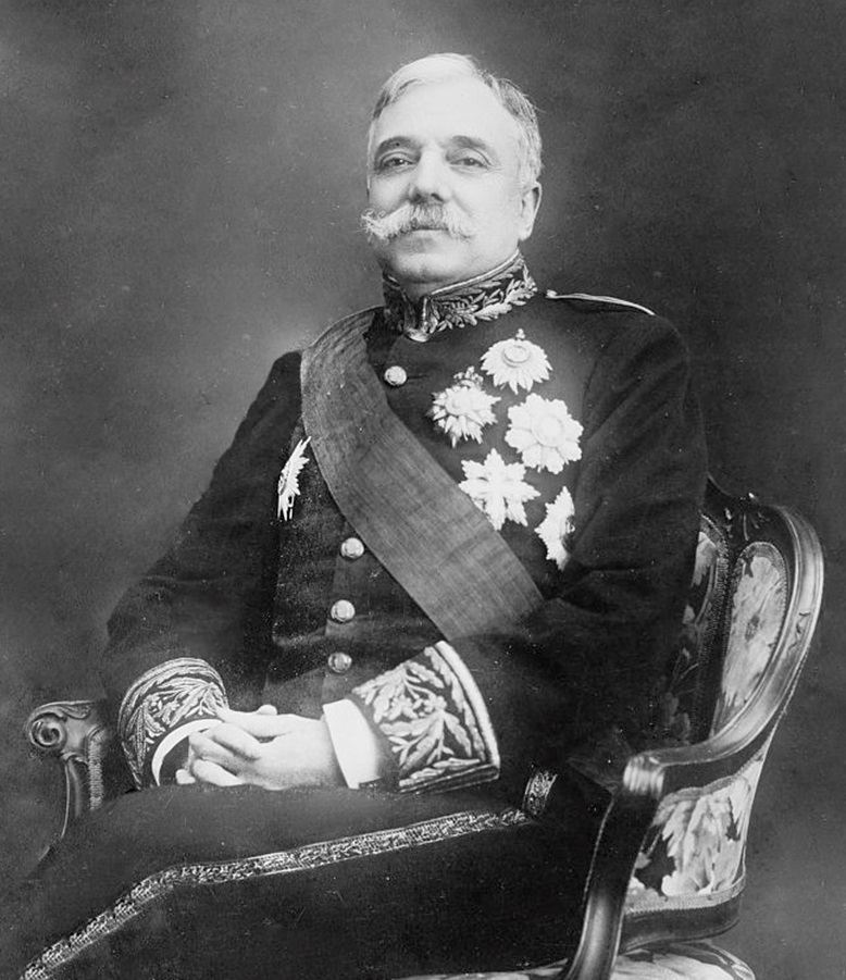 Campos Henriques, Minister of Justice, Portugal, seated, in uniform